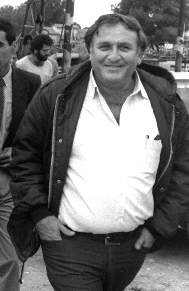 Cut from: file:Flickr - Government Press Office (GPO) - P.M. SHIMON PERES VISITING KIBBUTZ NAHAL.jpg.